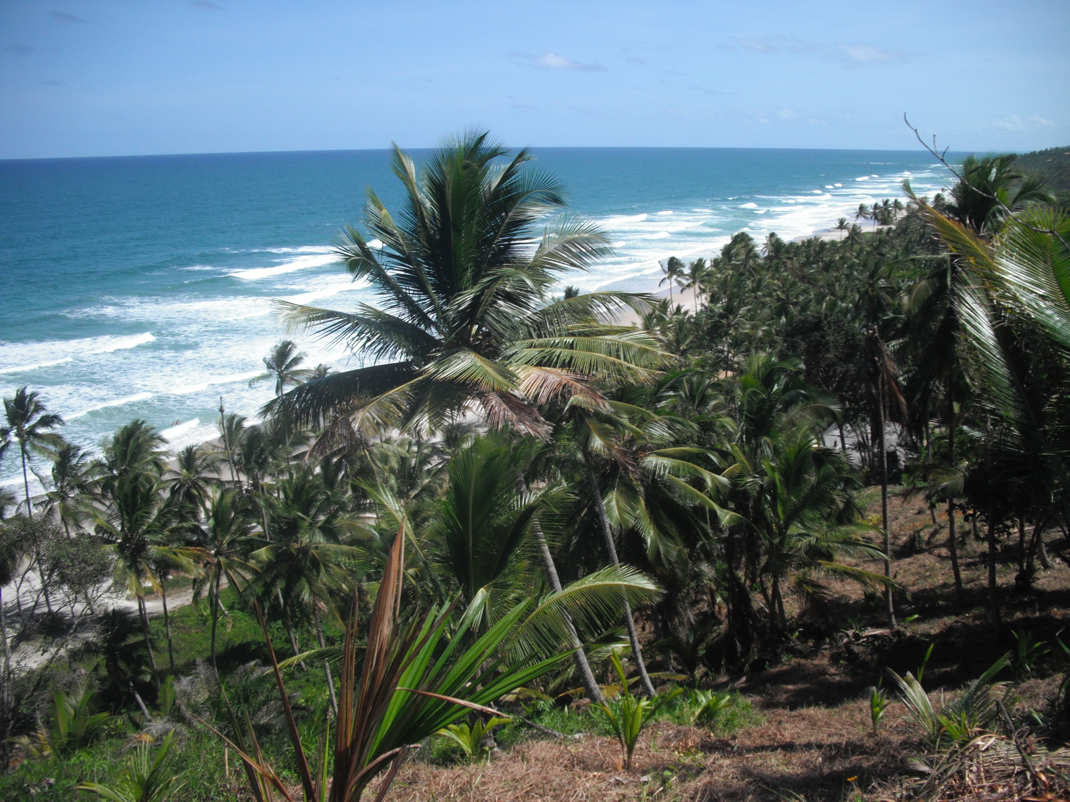 Itacarezinho beach, Itacaré, Bahia, Brazil.